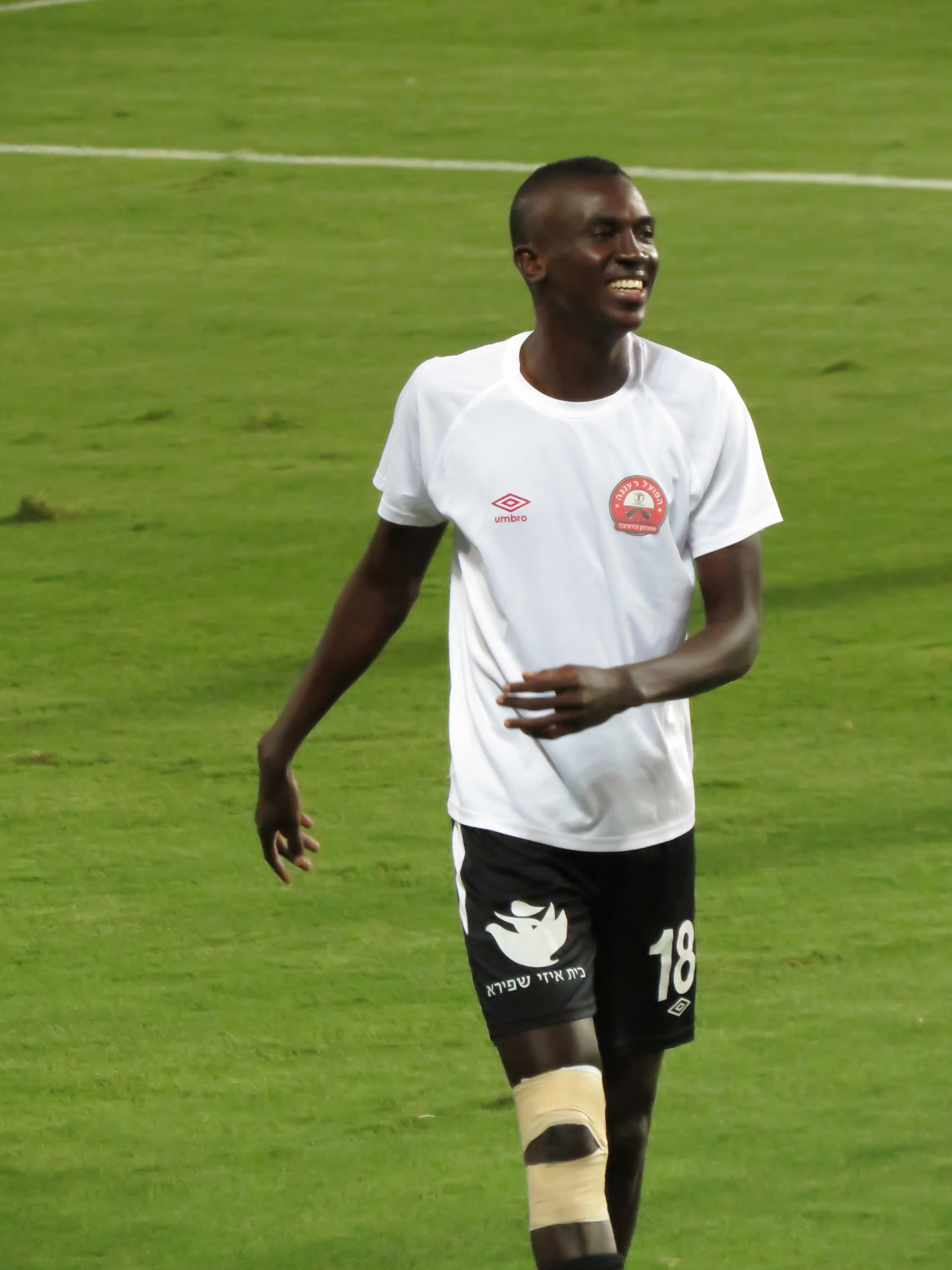 Hapoel Ra'anana vs. Hapoel Be'er Sheva - September 12, 2015